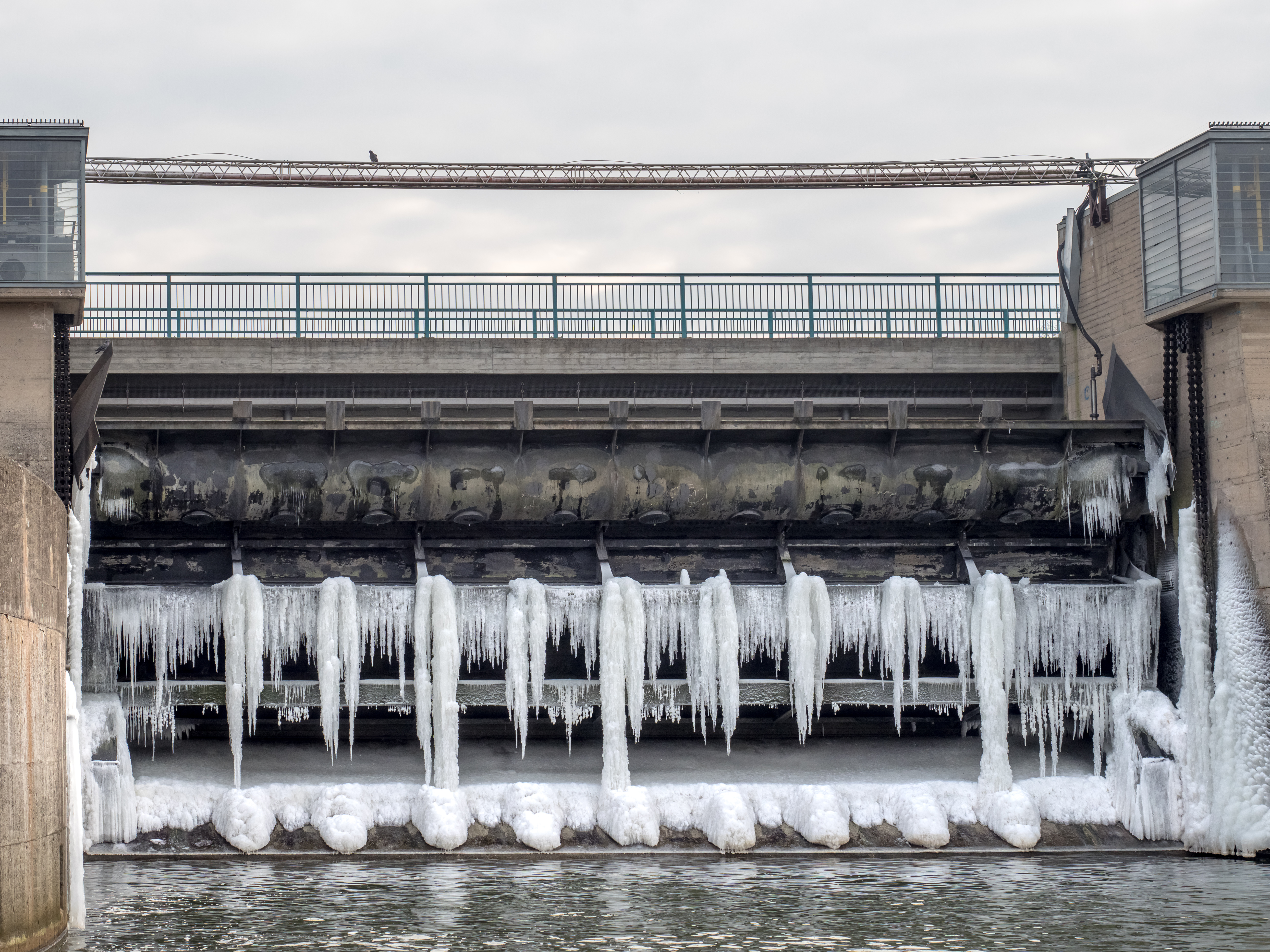 Left gate of the Jahn-weir at the right arm of the Regnitz in Bamberg